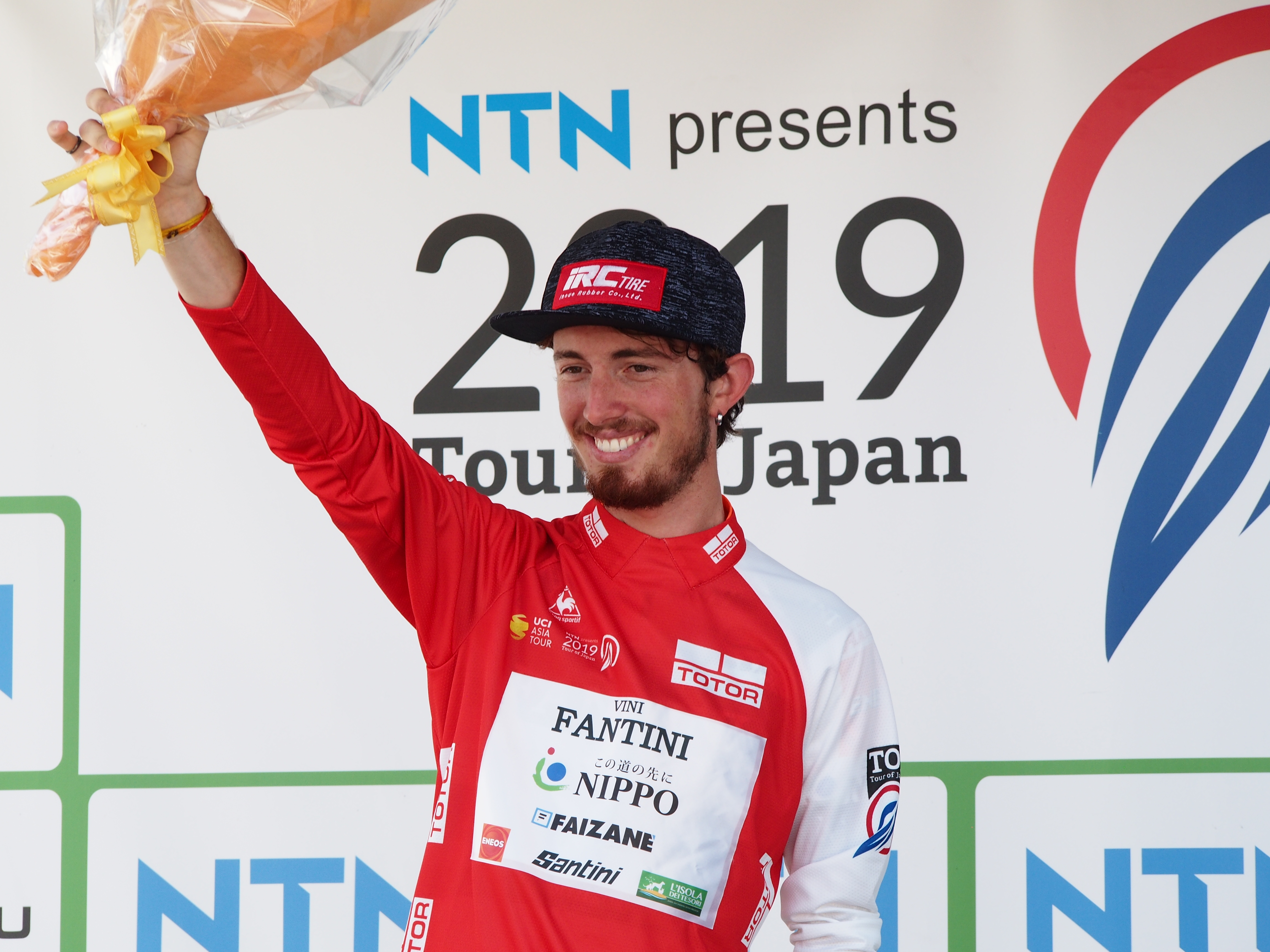 Filippo Zaccanti (Nippo–Vini Fantini–Faizanè) on the podium for winning the overall mountains classification (red jersey) of 2019 Tour of Japan.